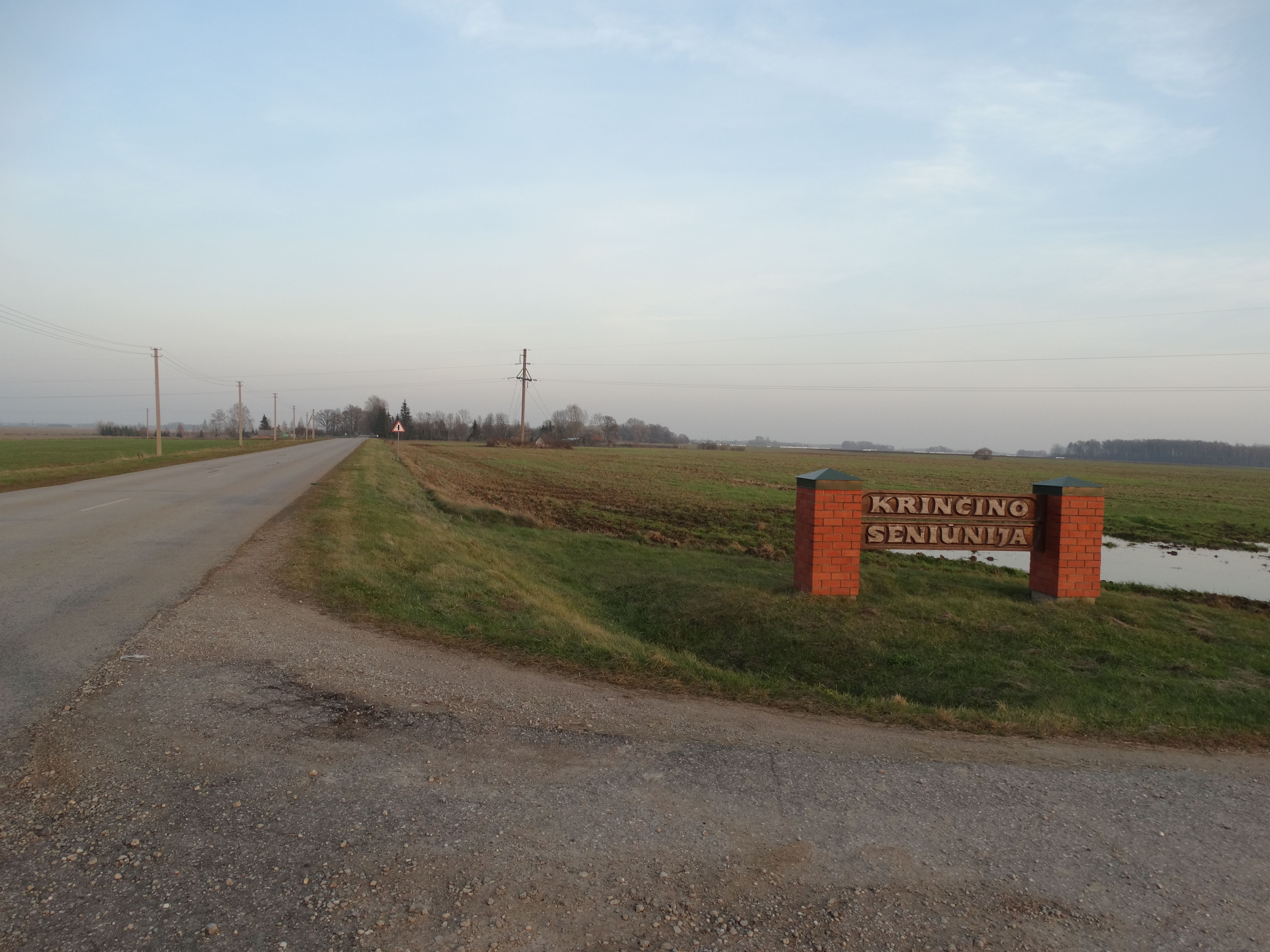 Krinčinas, Pasvalys District, Lithuania